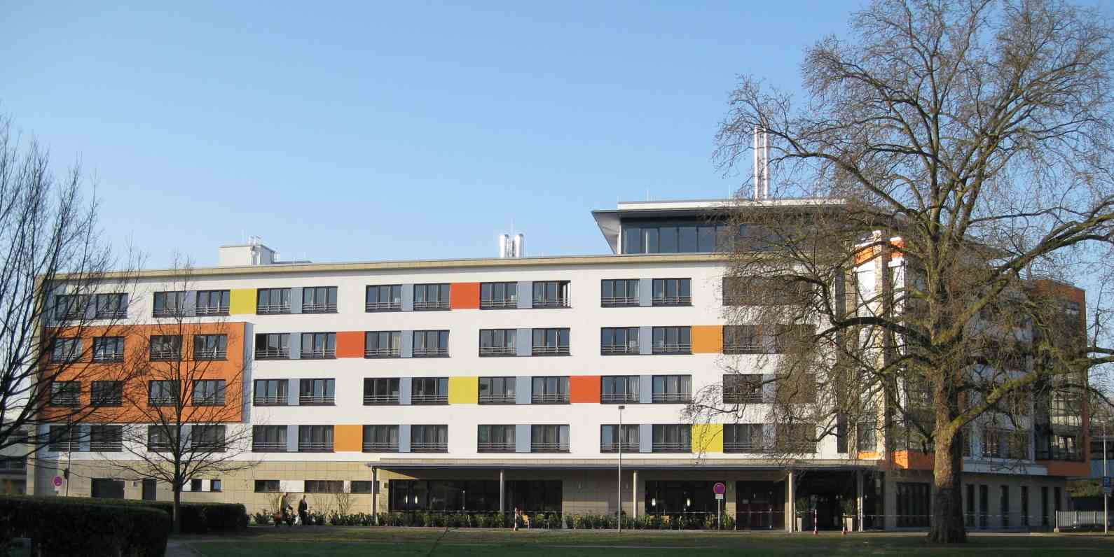 University hospital Mannheim, "Patientenhaus"